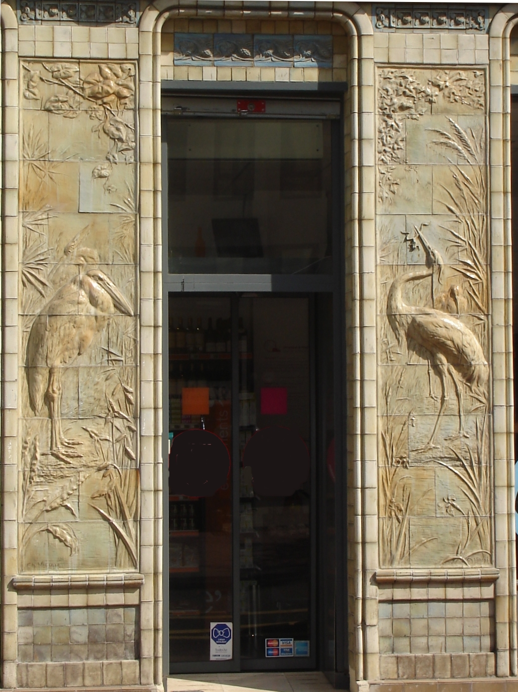 Ceramic relief panels, showing a heron swallowing a frog (left) and a marabou stork (right). These 2 panels are located on both side of the entrance door of a building of the begining of the 20th century, at 82 rue Anatole France in Levallois-Perret, suburb of Paris.